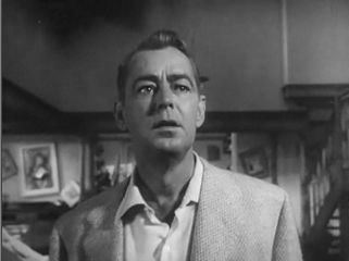 Cropped screenshot of Alan Ladd from the film The Man in the Net